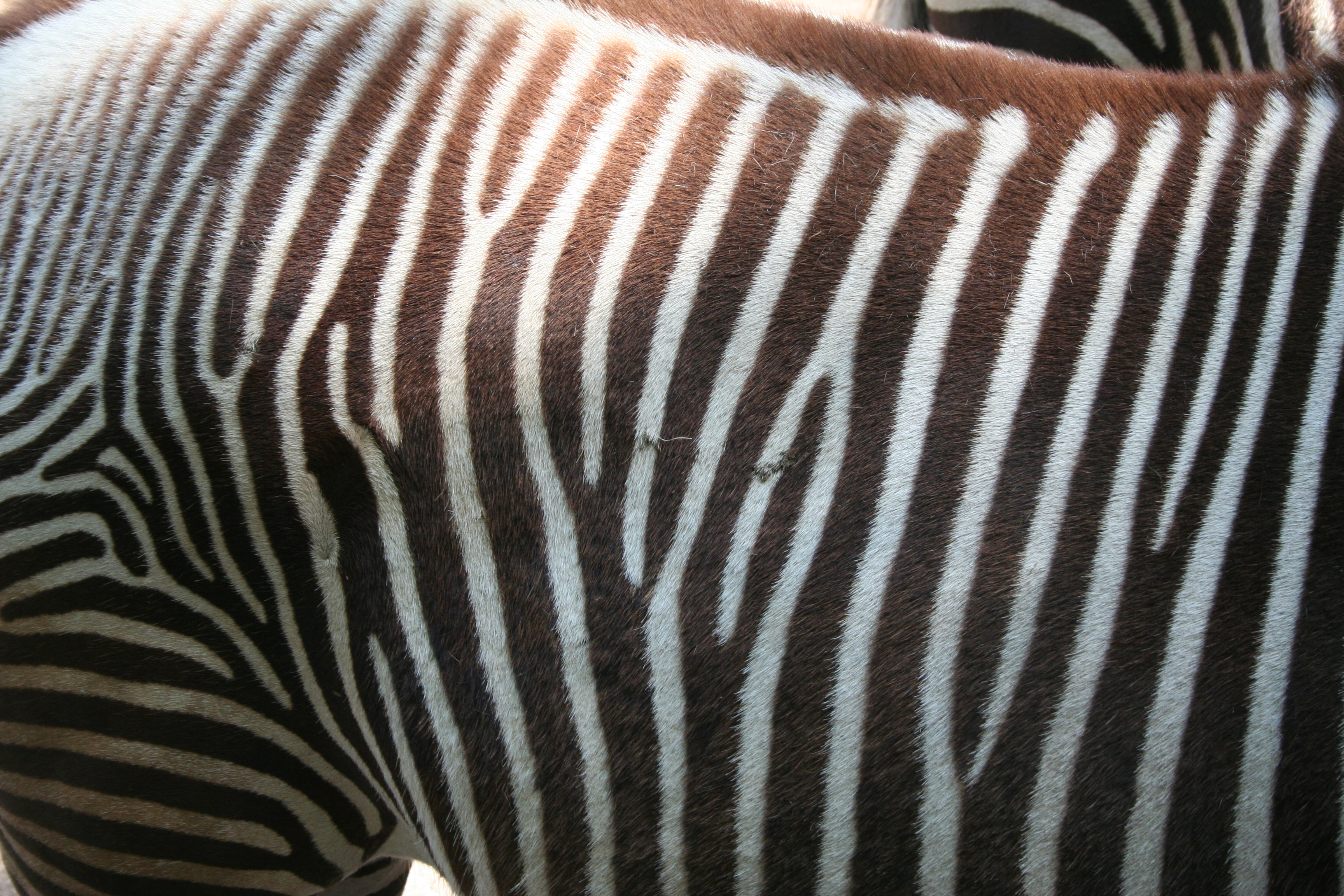 Grevy's zebra striping pattern